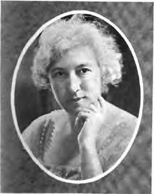 Grace Steele Hyde, Mrs Ralph Waldo Trine, Who's who among the women of California